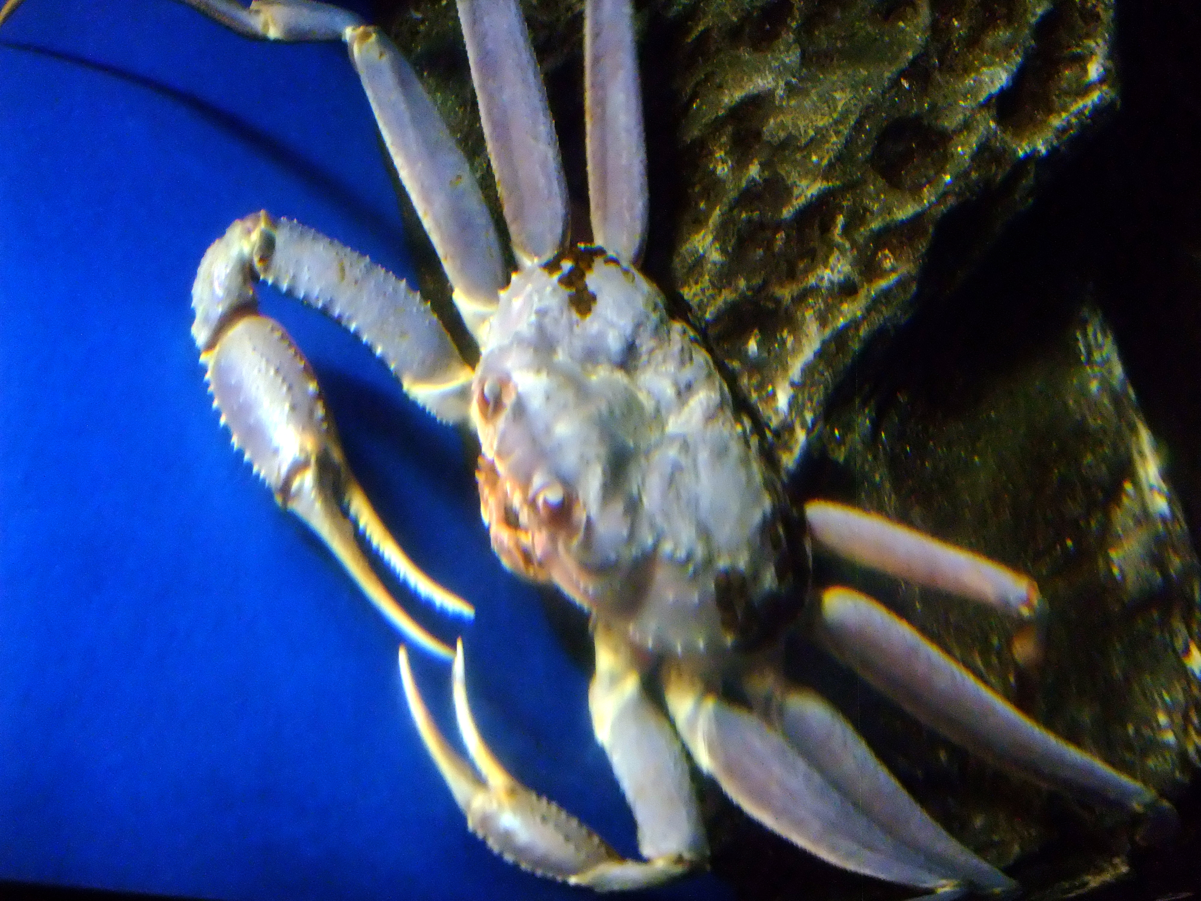 Blue Chionoecetes opilio